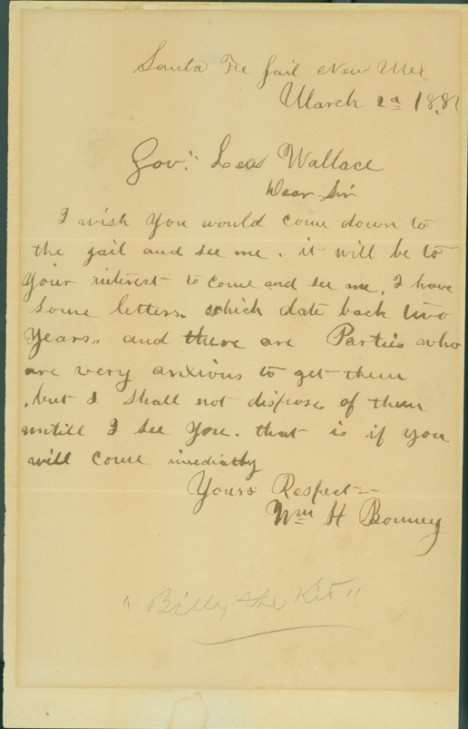 Photo of a letter dated March 1881, written by Billy the Kid to Territory of New Mexico Governor Lew Wallace. Courtesy of Fray Angelico Chavez History Library.